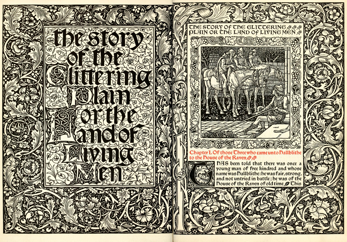 Title-page of "The story of the Glittering Plain" printed by Kelmscott Press in 1894